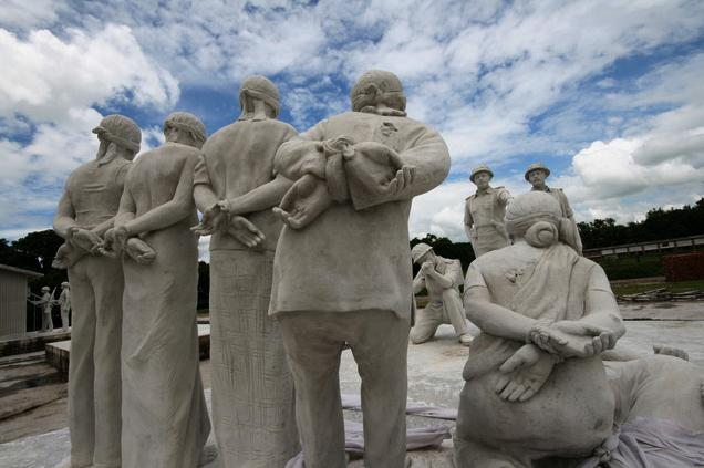 Sculpture depicts the 1971 killing of intellectals